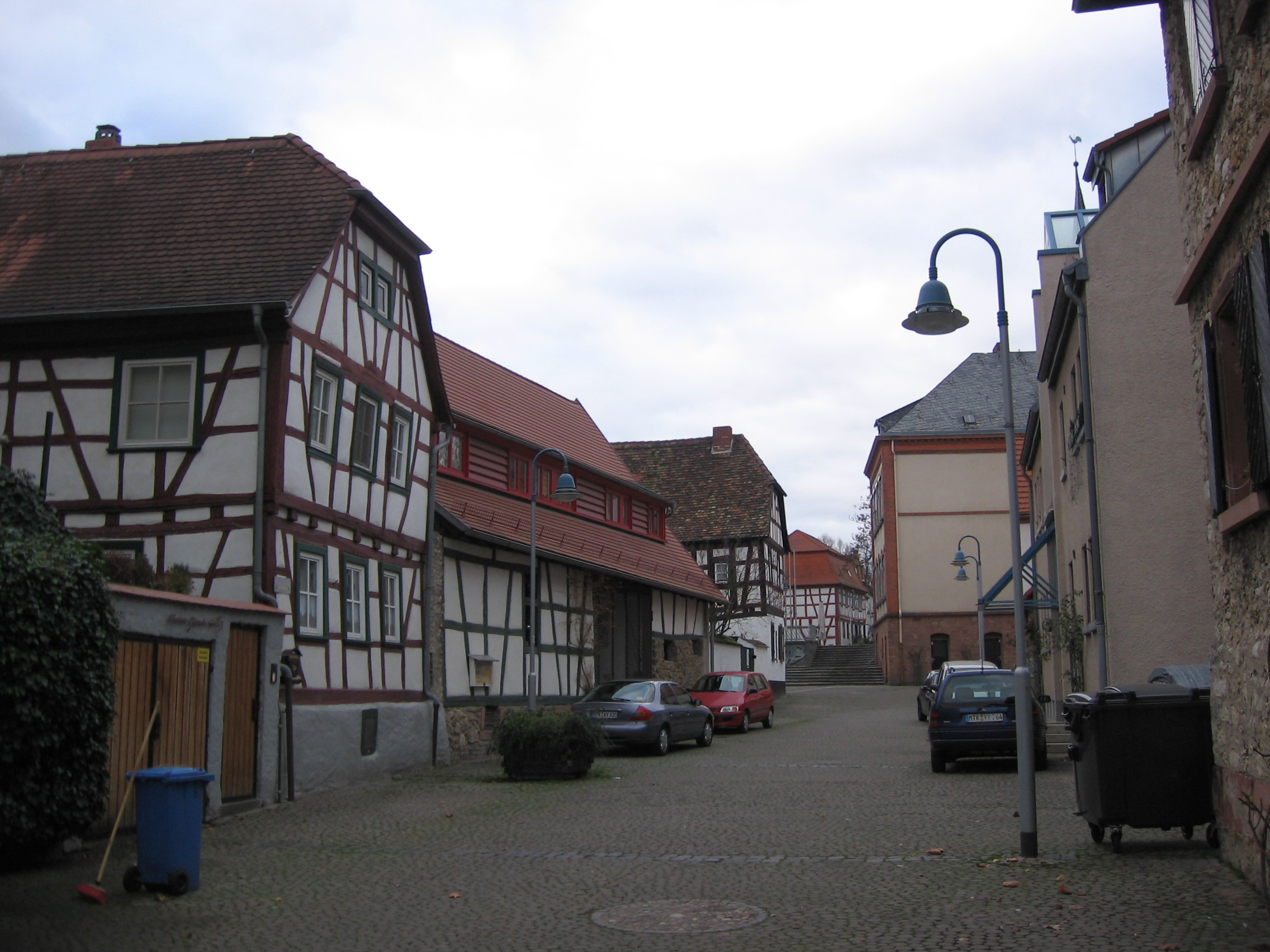 Old town of Floersheim